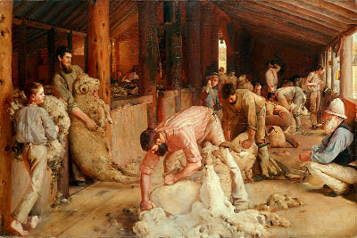 Shearing the Rams